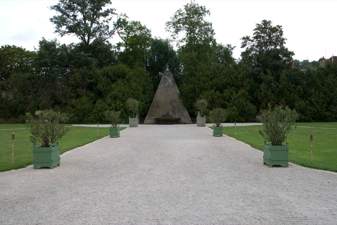 Château d'Ancy-le-Franc, garden